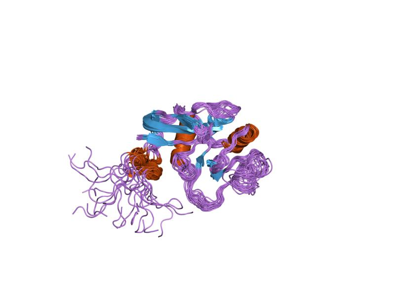 Cartoon representation of the molecular structure of protein registered with 1poz code.